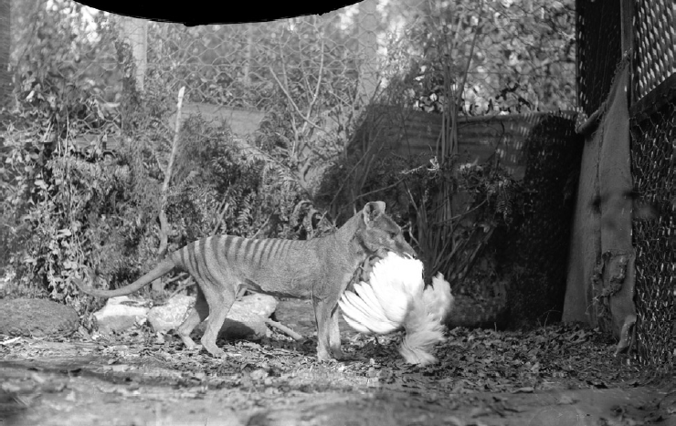 Tasmanian Tiger (Thylacine) photographed in cage with chicken by Henry Burrell.